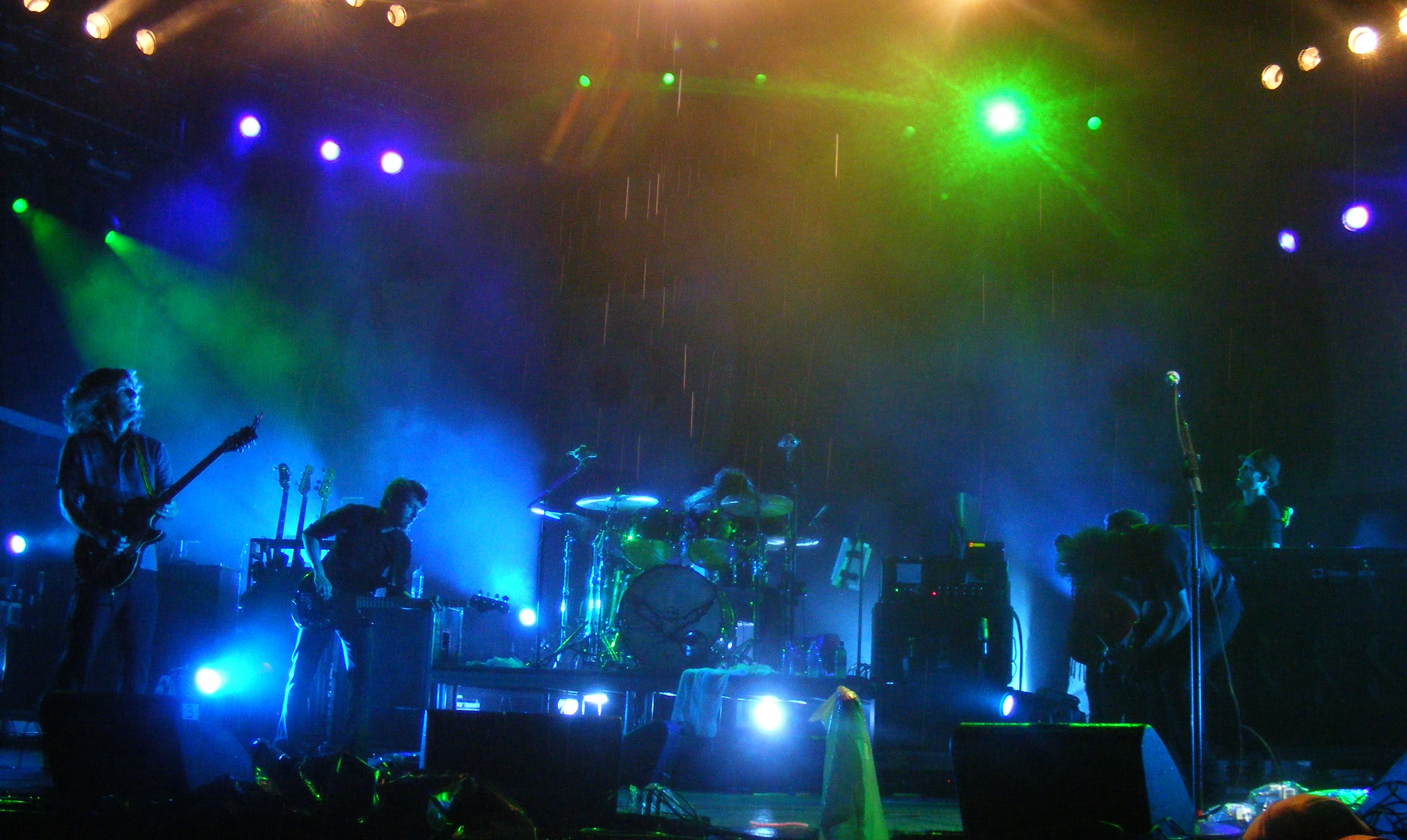 My Morning Jacket performing at the 2008 Bonnaroo Music & Arts Festival in the early morning hours of June 14th.